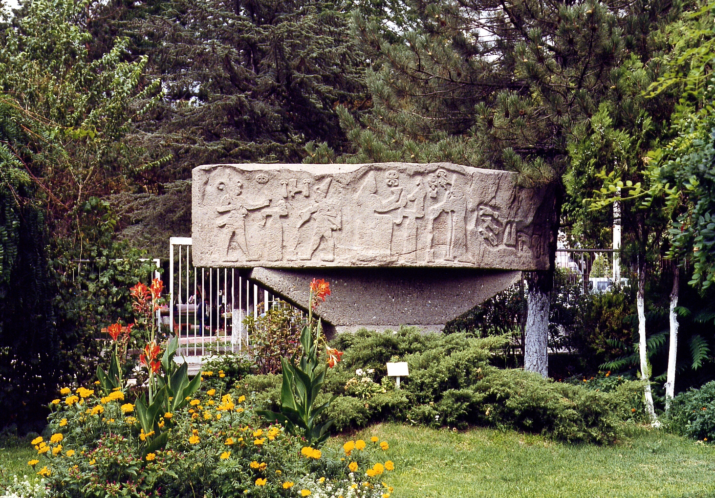 God on left: Luwian hieroglyph-Deus; 3rd figure from left: hieroglyphs: "Deus-Great"-(bottom glyph-great)